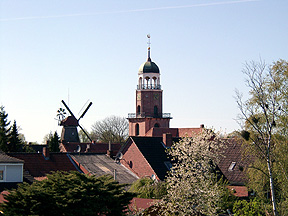 Picture of church and windmill in Ditzum, community of Jemgum, district of Leer, Germany.